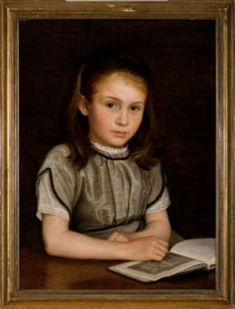 Portrait of Susette Skovgaard Holten made by P. C. Skovgaard